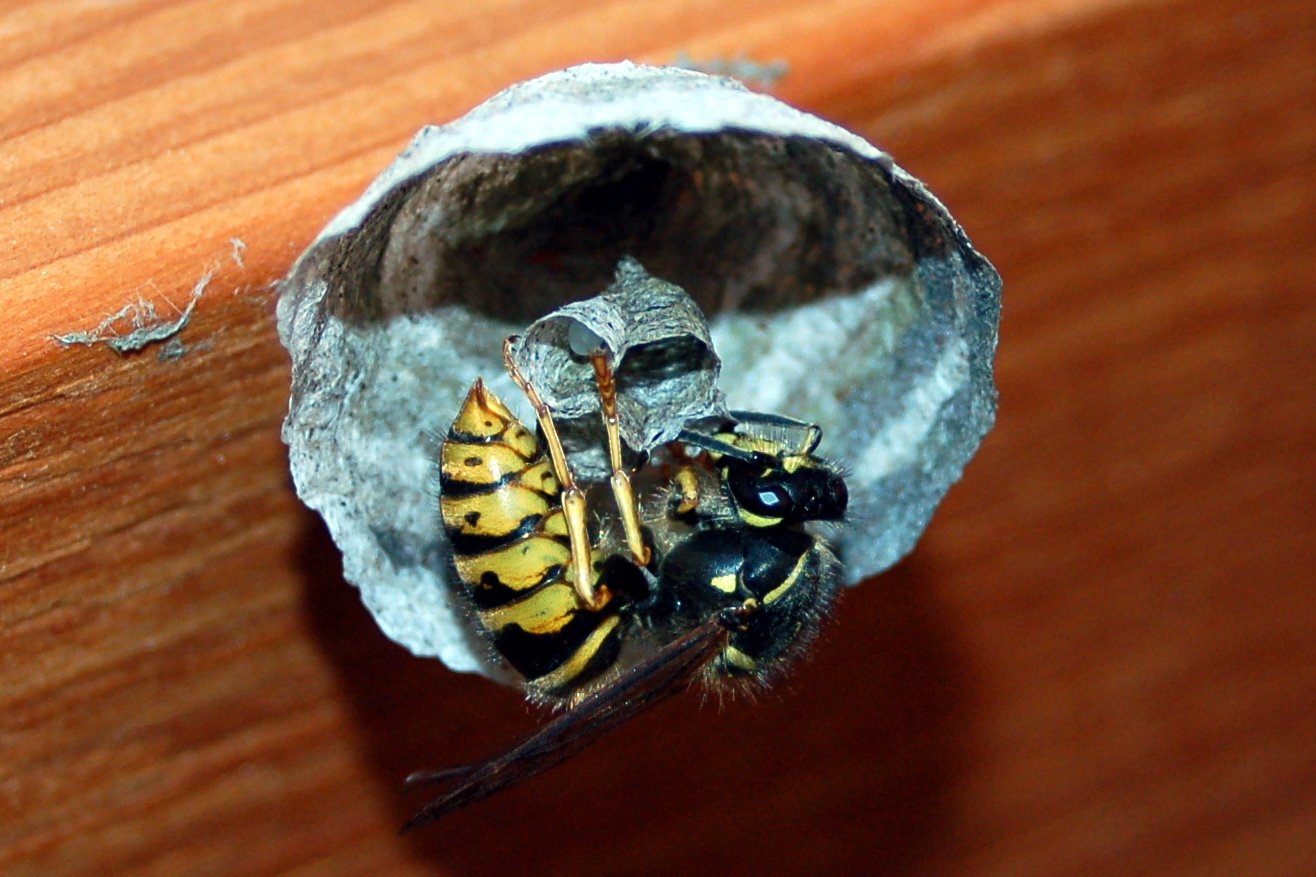 Wasp building a new home